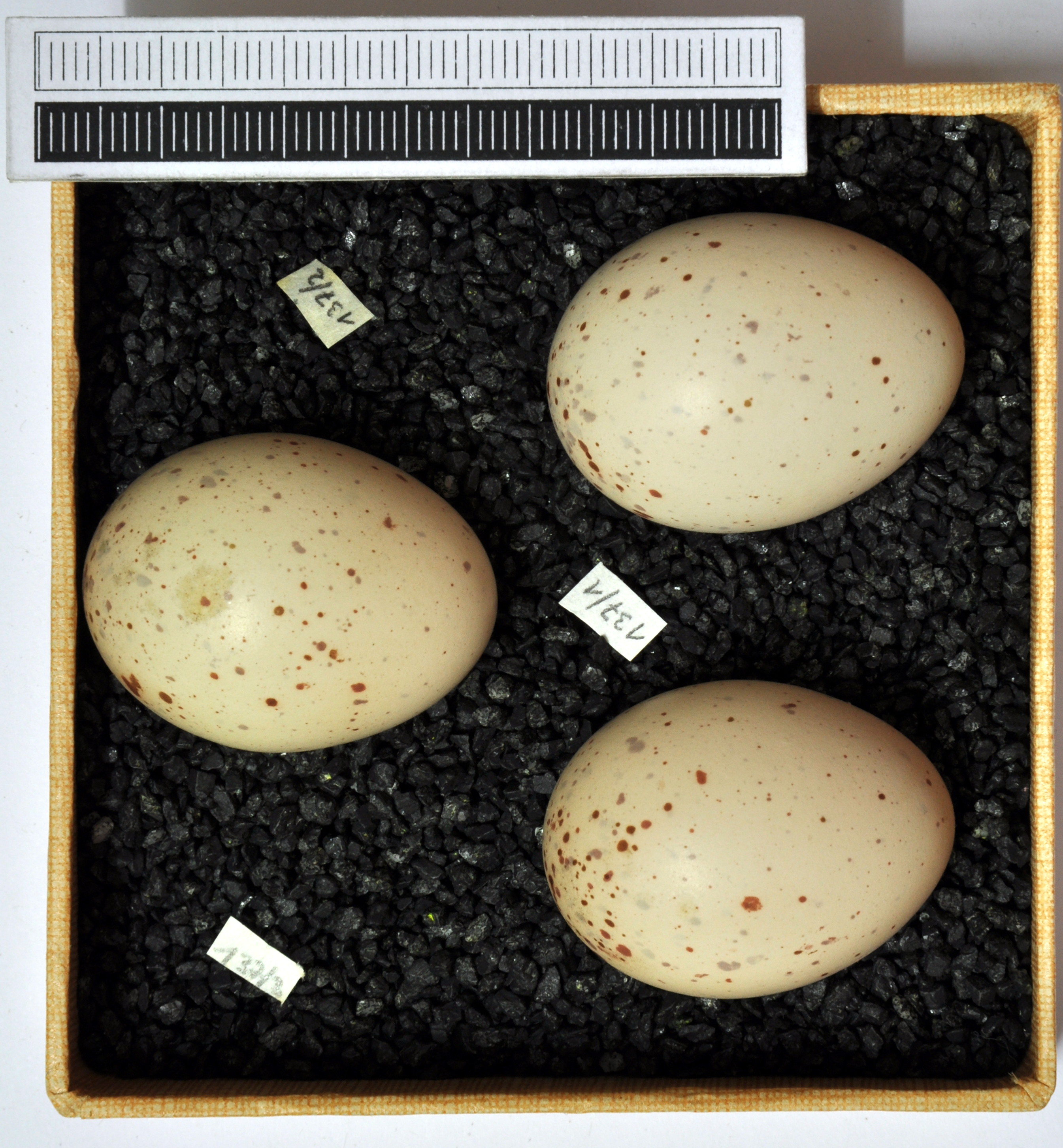 Water rail Rallus aquaticus, egg, Coll. Museum Wiesbaden, Origin: Lake Neusiedl, Austria, 08.05.1970, leg. W. Abelmann